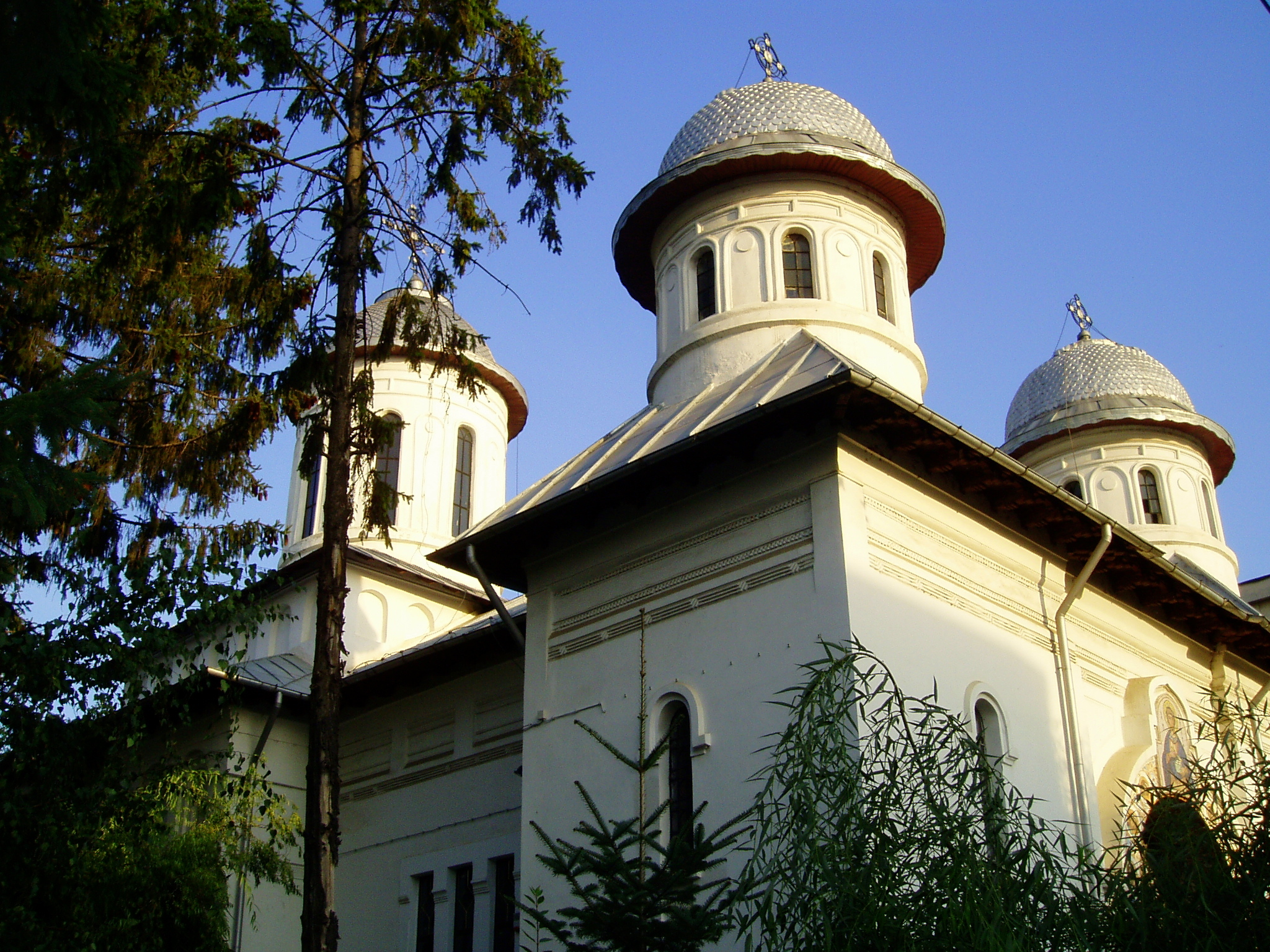 St Pantelimon Church in Ploieşti, Romania. Architect : Toma T. Socolescu. This building is located at Democraţiei street nr 71, Ploieşti, Judeţul Prahova, Romania. We are the only heirs and descendants of Toma T. Socolescu (died in 1960 in Bucharest) and therefore owner of all his intellectual rights.